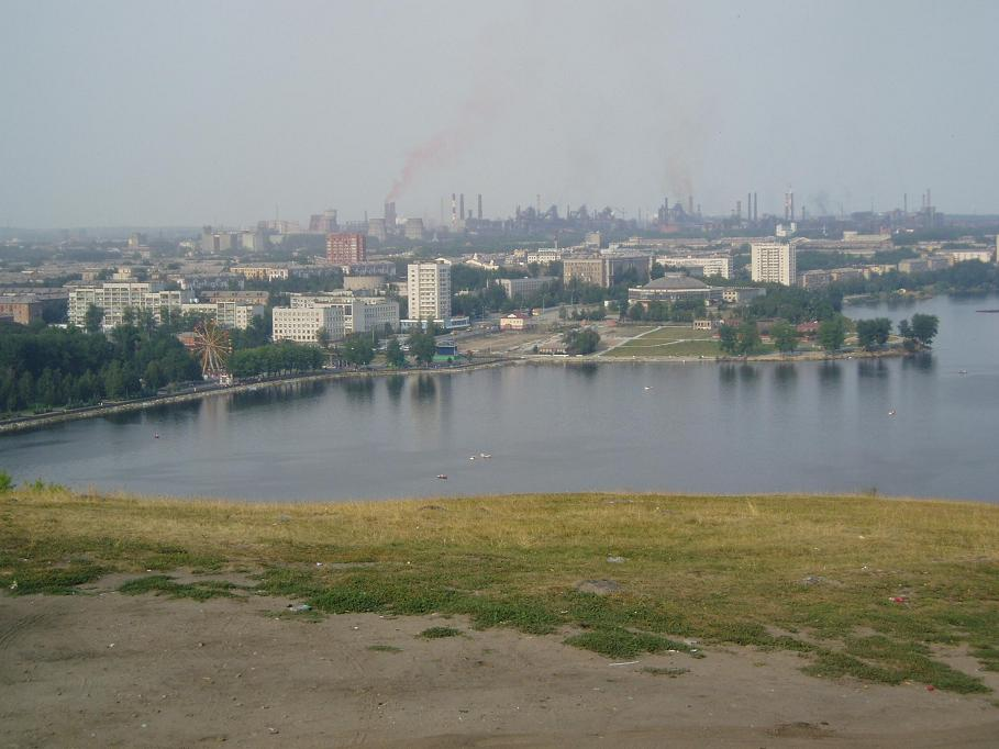 View on industrial zone of Nizhny Tagil from fox hill (Lishu gora). The red smoke (iron) indicates NTMK. Photo taken in summer 2005.